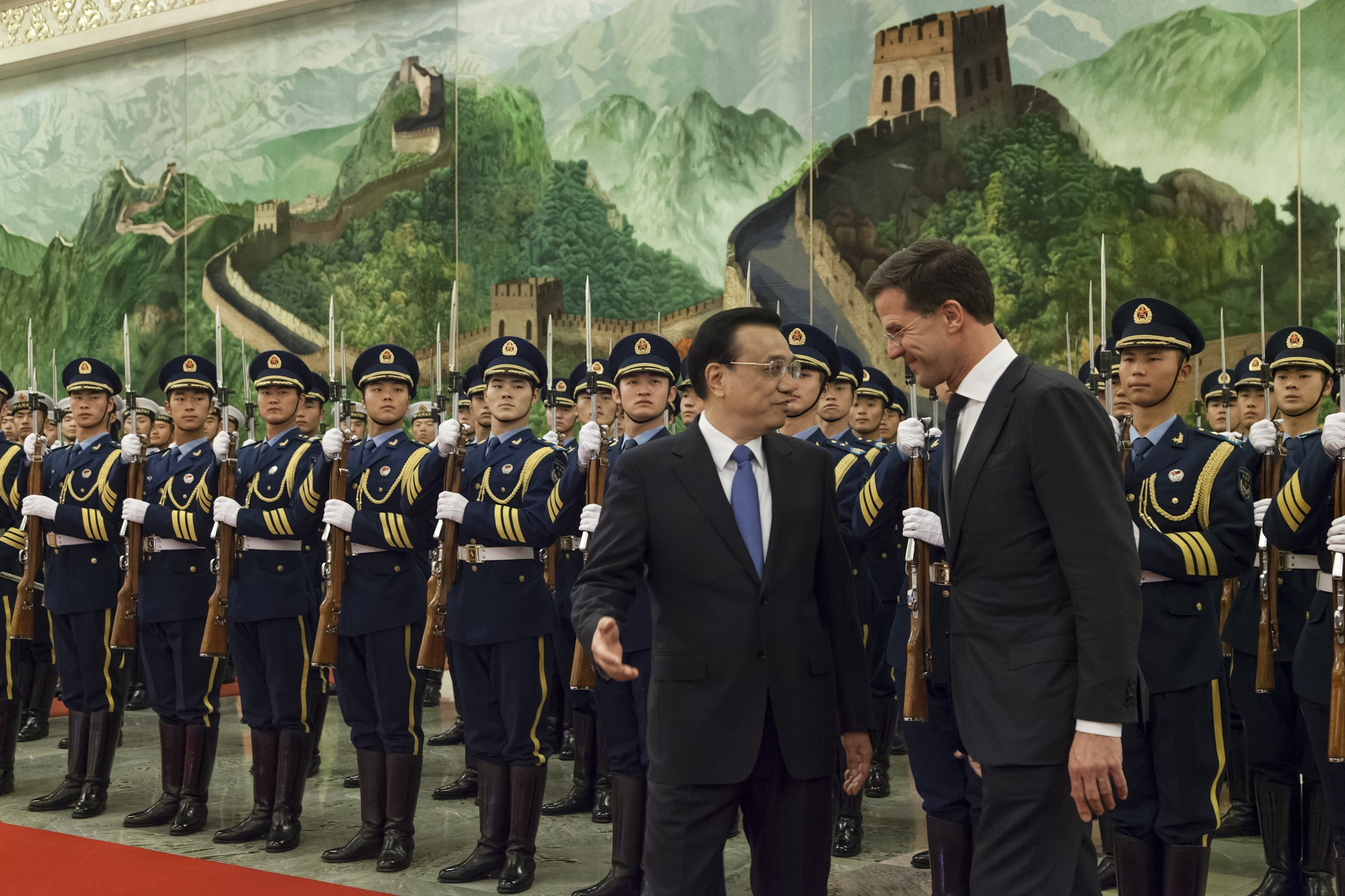 Premier Li Keqiang ontvangt minister-president Rutte in de Grote Hal van het Volk. Rutte is in China voor een officieel bezoek. Hij wordt hierbij vergezeld door minister Ploumen en een delegatie van het Nederlandse bedrijfsleven.